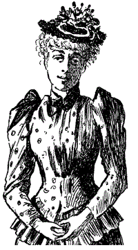 Drawing of "Daisy Mutlar", the fiancee of Lupin Pooter in The Diary of a Nobody